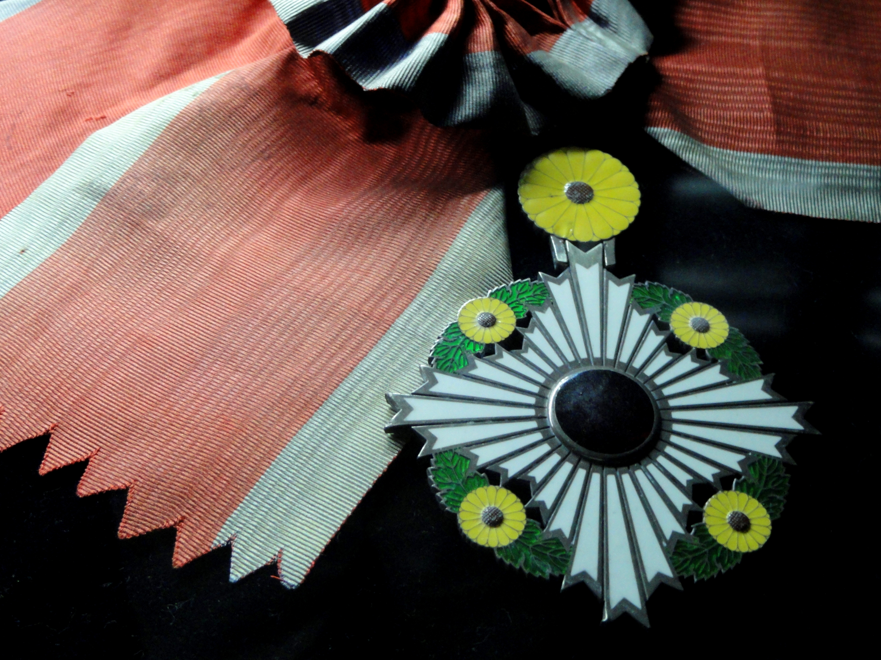 IExhibit in the Memorial JK, Brasília, Brazil.